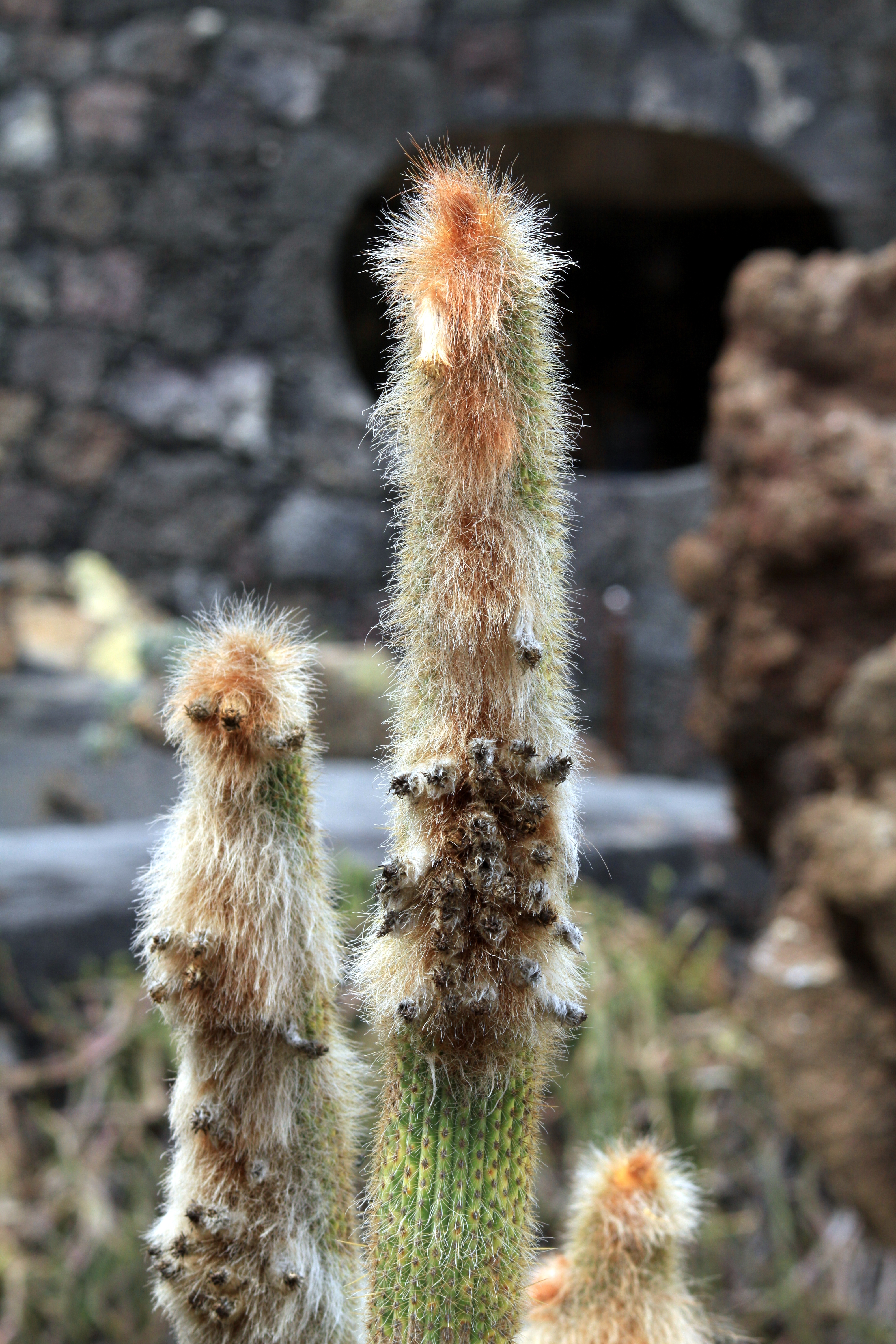 Espostoa guentheri in the Jardin de Cactus in Guatiza on Lanzarote, The Canary Islands, Spain